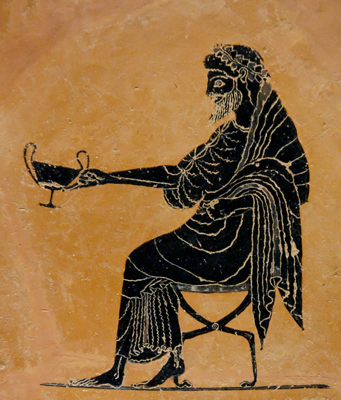 Seated Dionysos holding out a kantharos. Interior from an Attic black-figured plate, ca. 520-500 BC. From Vulci.